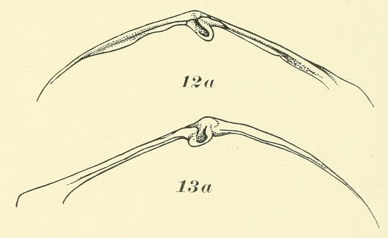 The right (above, 12a) and left (below, 13a) hinges of the type specimen of Corbula mesopotamica (now classified as Theora mesopotamica)